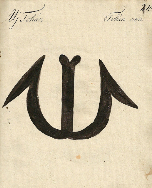 Cattle brand of Neutohan/Tohanu Nou/Újtohán